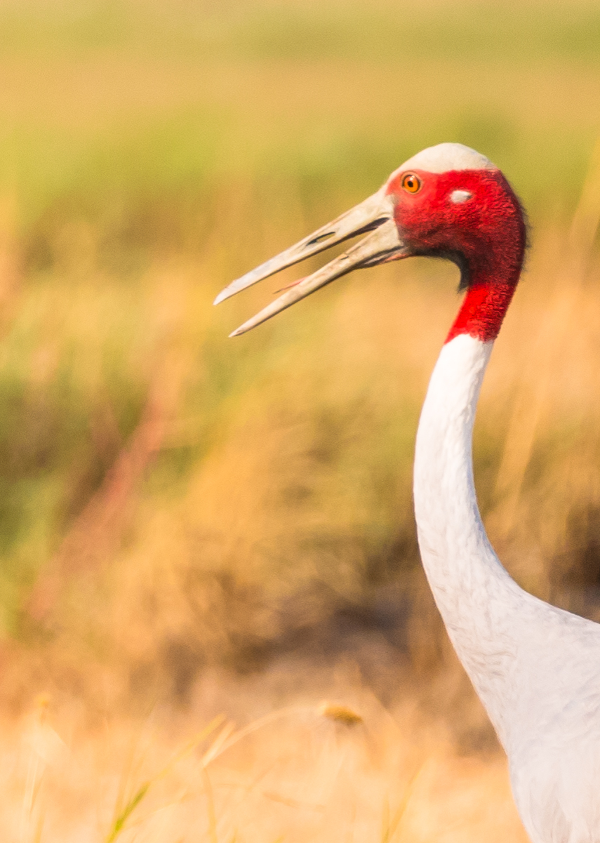 Sarus Crane